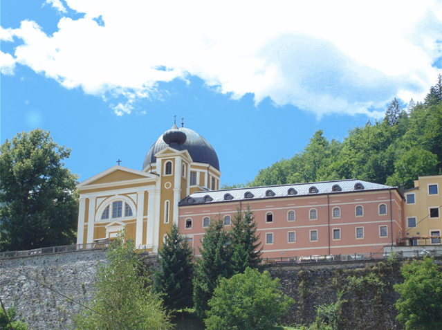 Franciscan monastery in Bosnia and Herzegovina